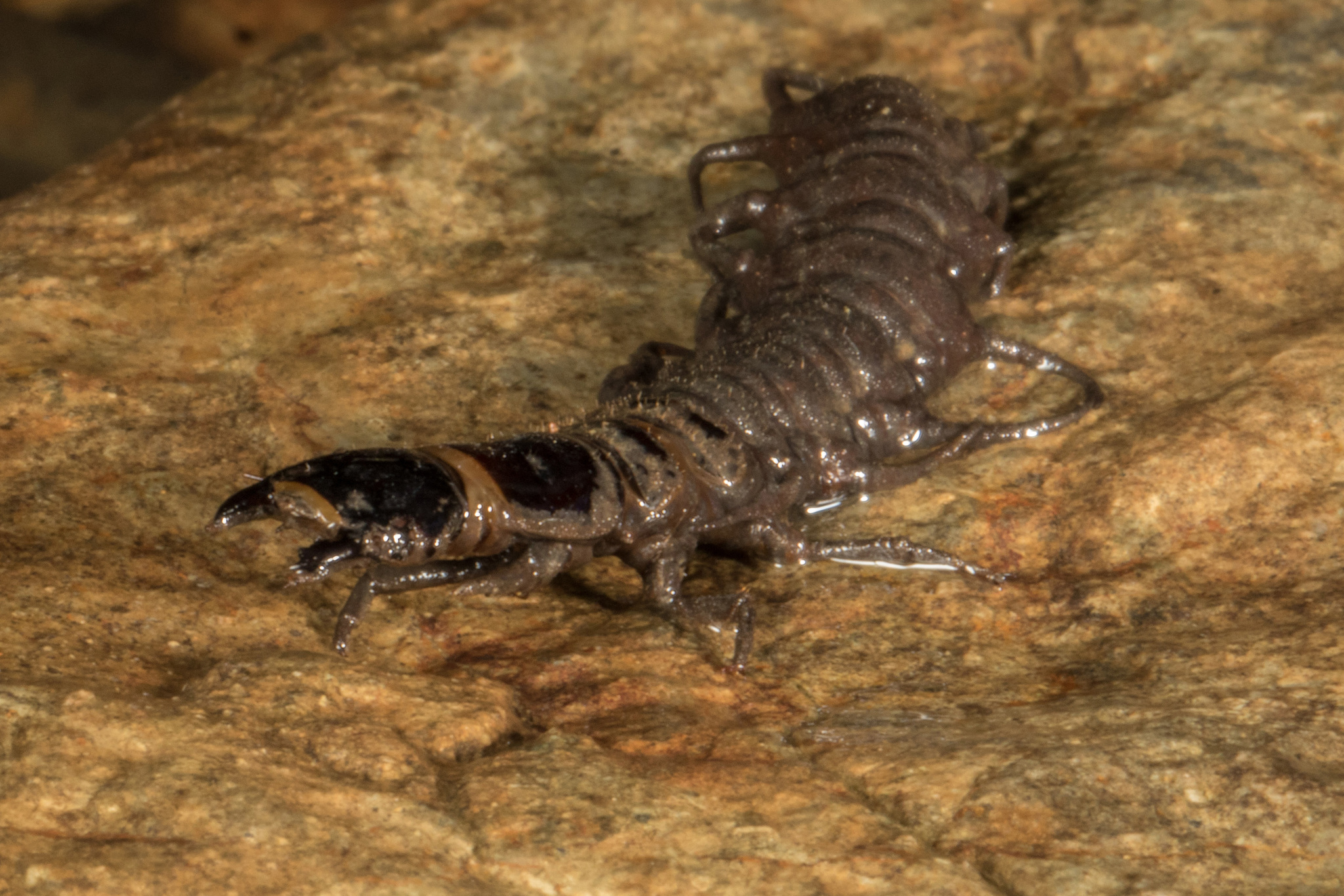 Archichauliodes diversus by Shaun Lee from iNaturalist observation